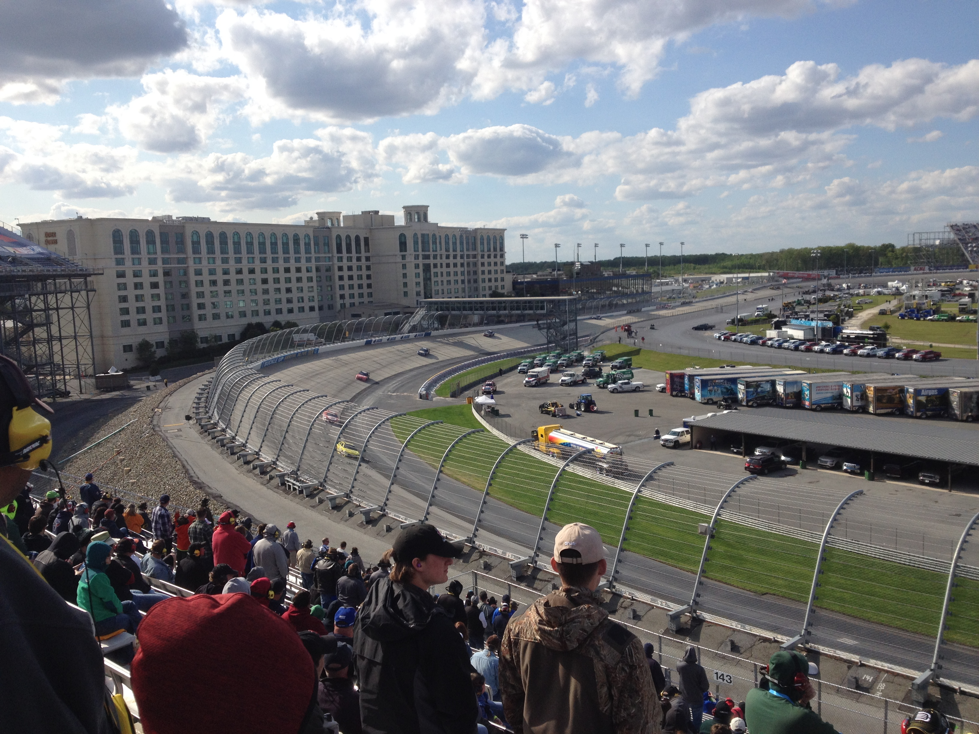 The 2016 AAA 400 Drive for Autism at Dover International Speedway viewed from between turns 3 and 4, with eventual race winner Matt Kenseth (#20) leading Kyle Larson (#42) and the rest of the field in the closing laps.